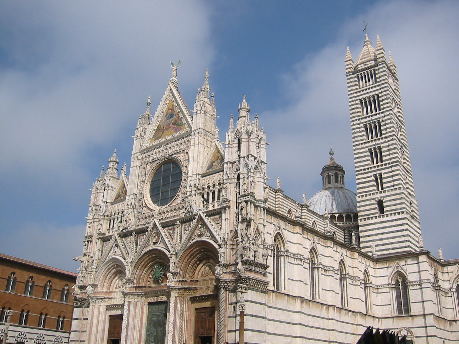 Cathedral of Siena